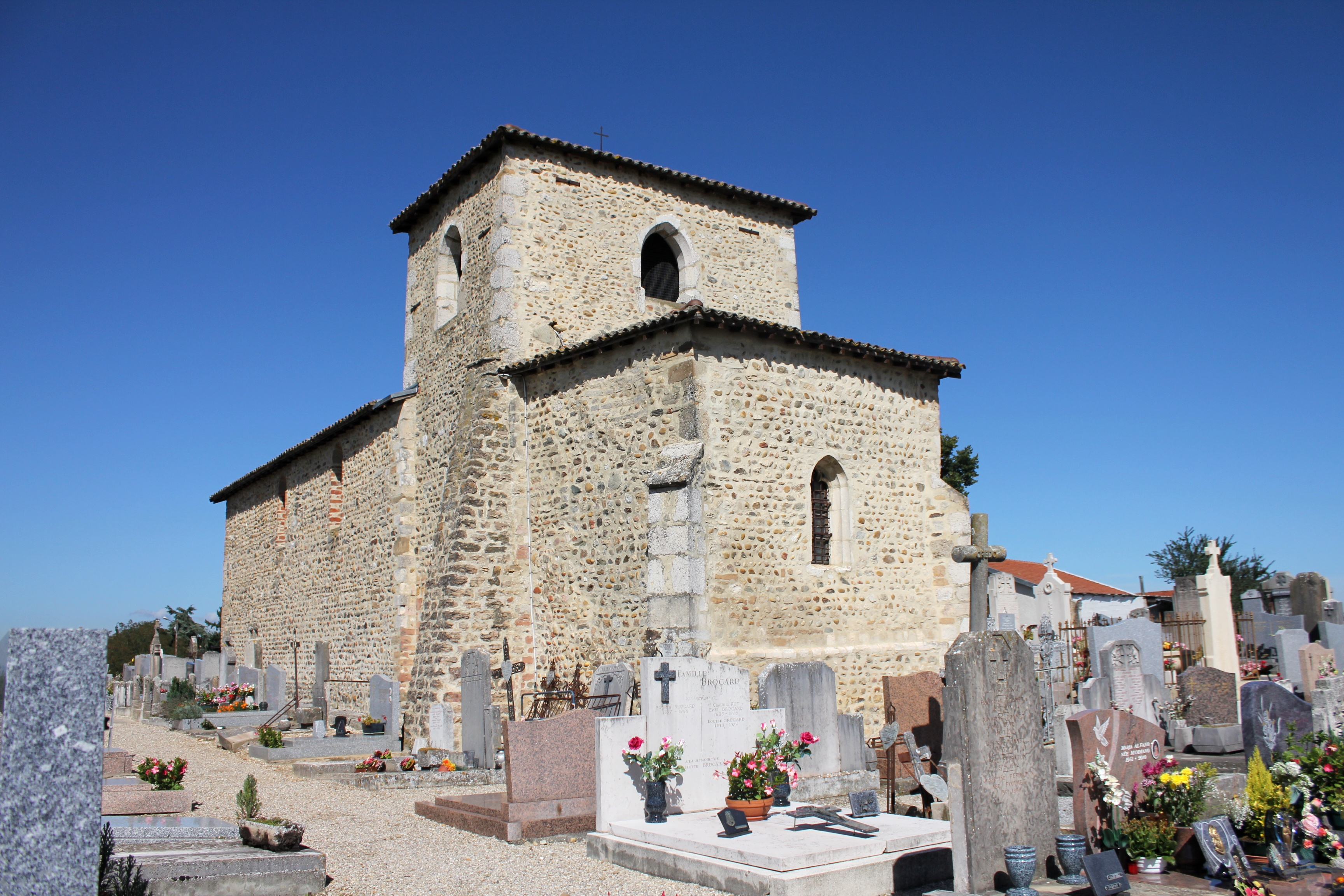 Old abbatial church of Moifond (Pusignan) - view from south-east